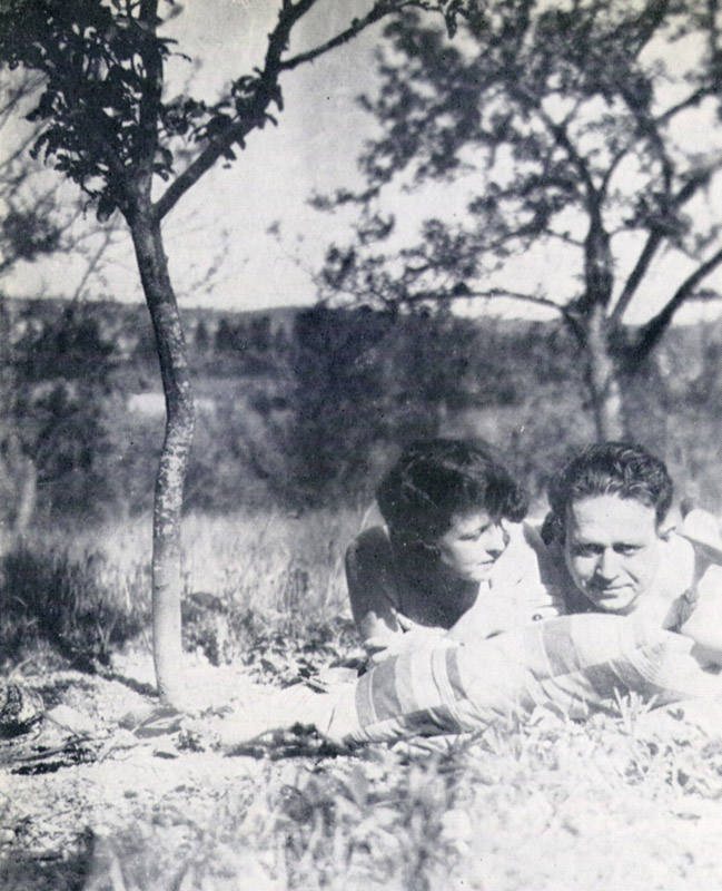 Kurt Tucholsky und Lisa Matthias in Läggesta, Sweden, 1929.